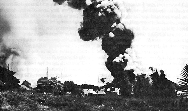 JAPANESE AIR ATTACK ON 10 DECEMBER 1941 left warehouses on fire at Nichols Field, above [1]